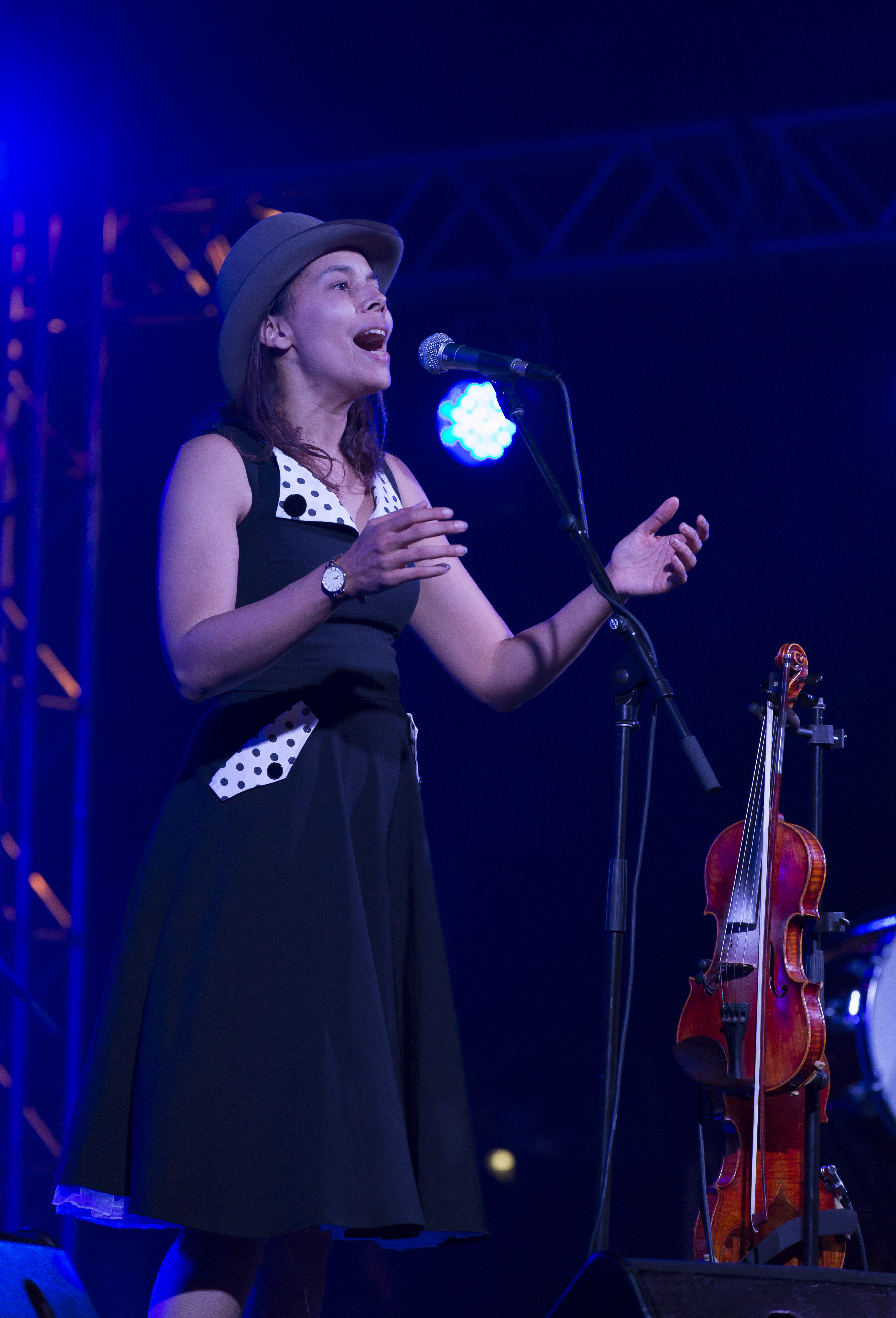 Byron Bay Bluesfest 2016